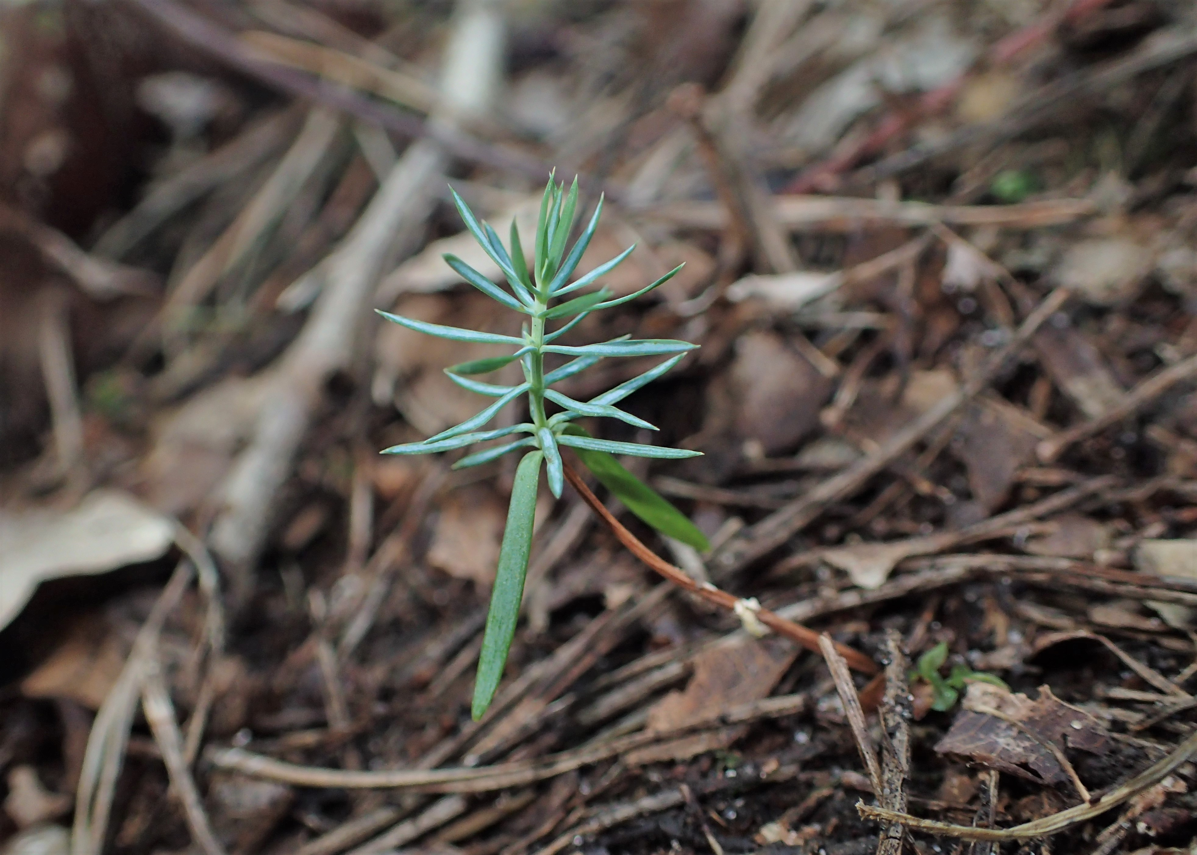 Juniperus communis seedling. Dziwnów on Baltic Sea, NW Poland